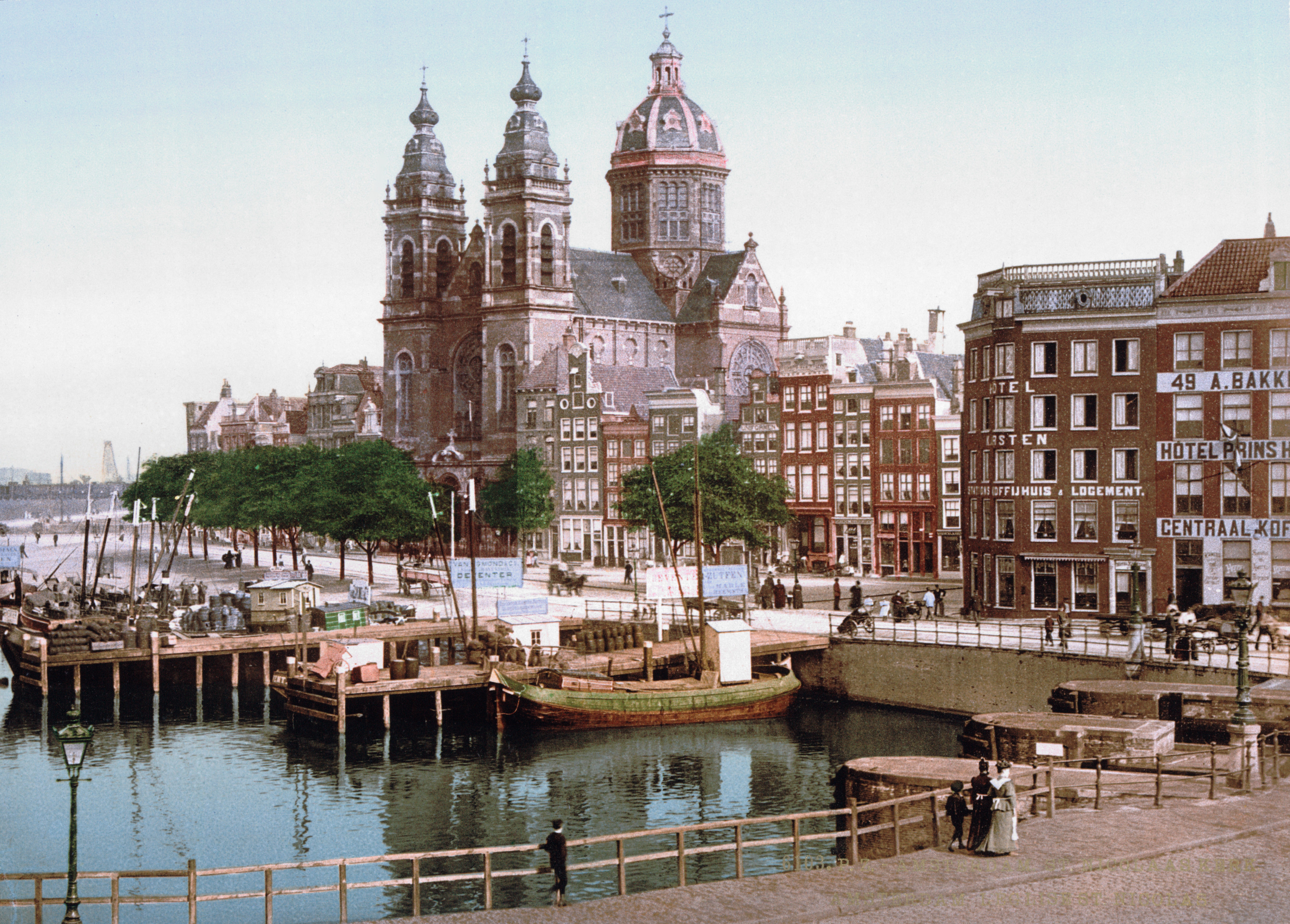 Amsterdam St Nicolaas church